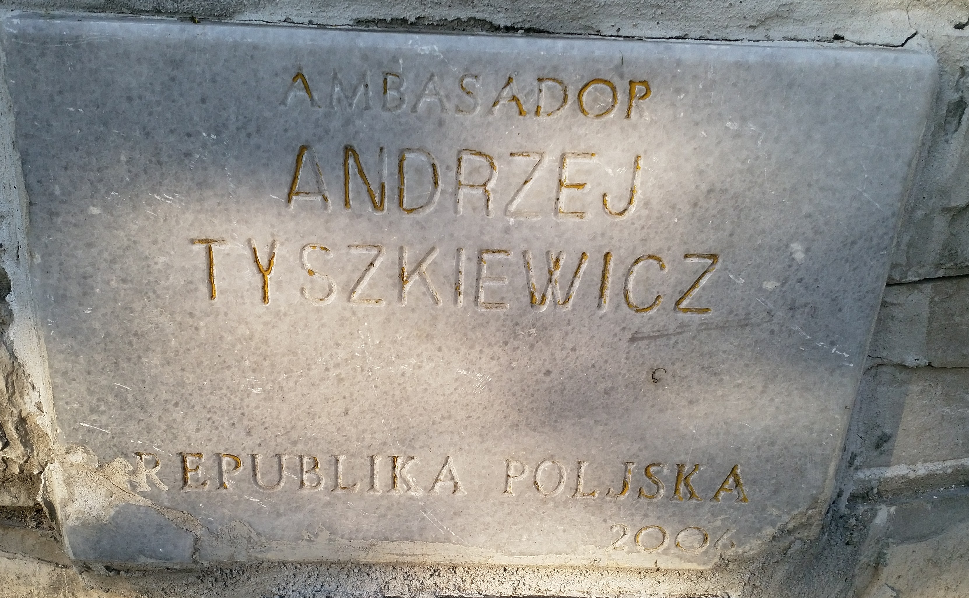 Plaque of Polish ambassador Andrzej Tyszkiewicz at the Ambassadors Alley in Sarajevo